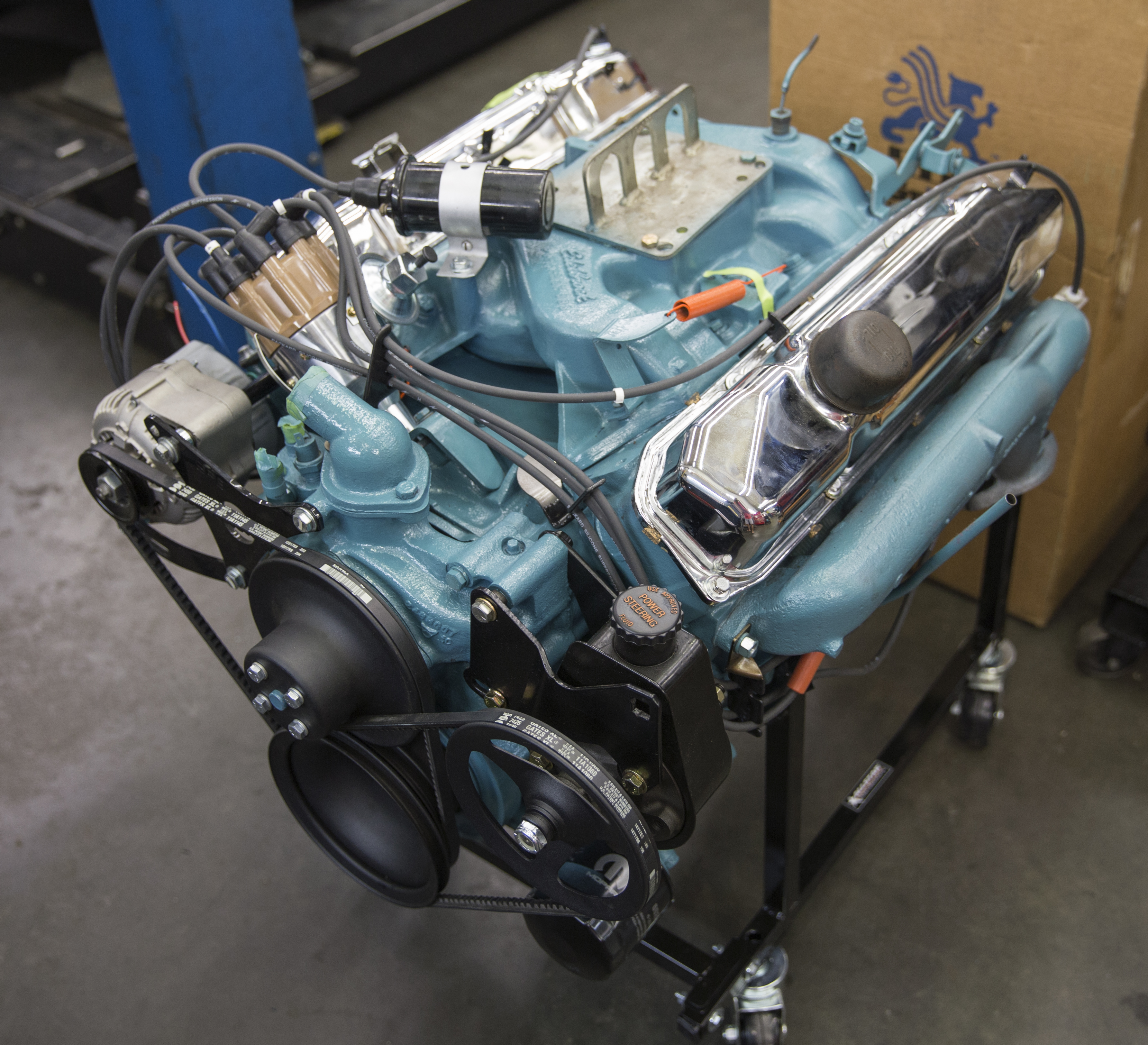 A 1964/1965 Chrysler B 383 V8 engine undergoing some work at Autosports Designs in Huntington, NY (Long Island). These are so plentiful that they used to be considered throwaways... I wonder what it came out of? I don't see Facel Vegas with turquoise engines, but who knows.